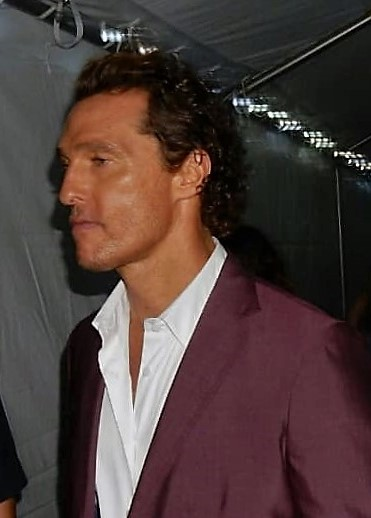 Matthew McConaughey at the premiere of White Boy Rick, 2018 Toronto Film Festival.